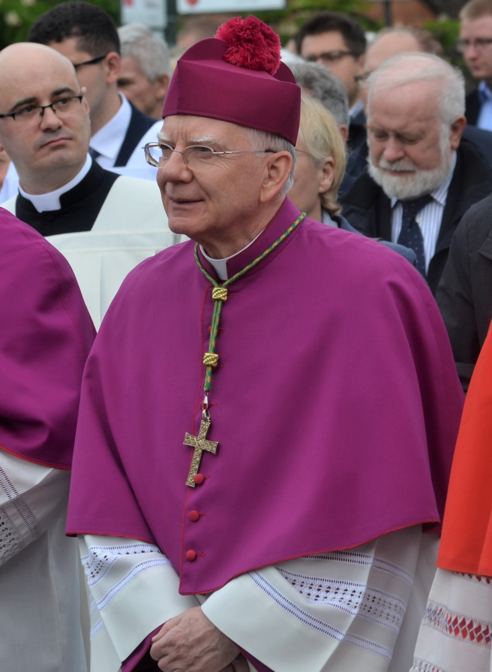 Marek Jędraszewski